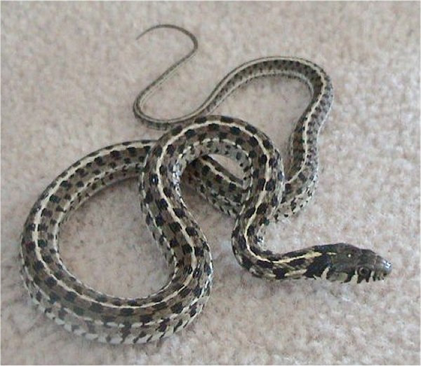 Checkered garter snake.